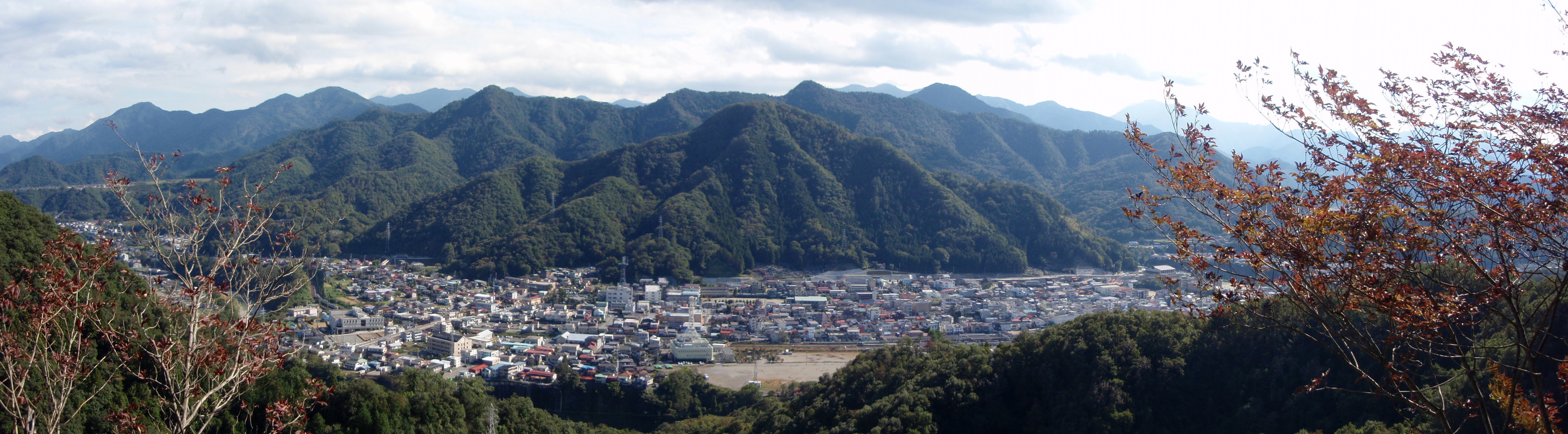 A panorama of Ōtsuki, outside of Tokyo, taken from the surrounding mountains